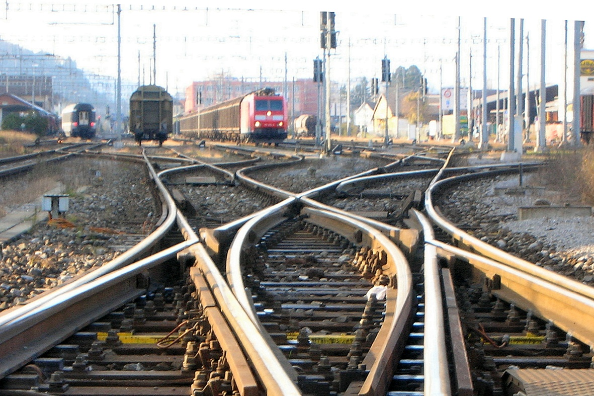 Complex rail switch in the railway station. The cargo train goes in direction to the right side for Austria, Nov 19, 2005, 2.55 PM. See where this picture was taken.